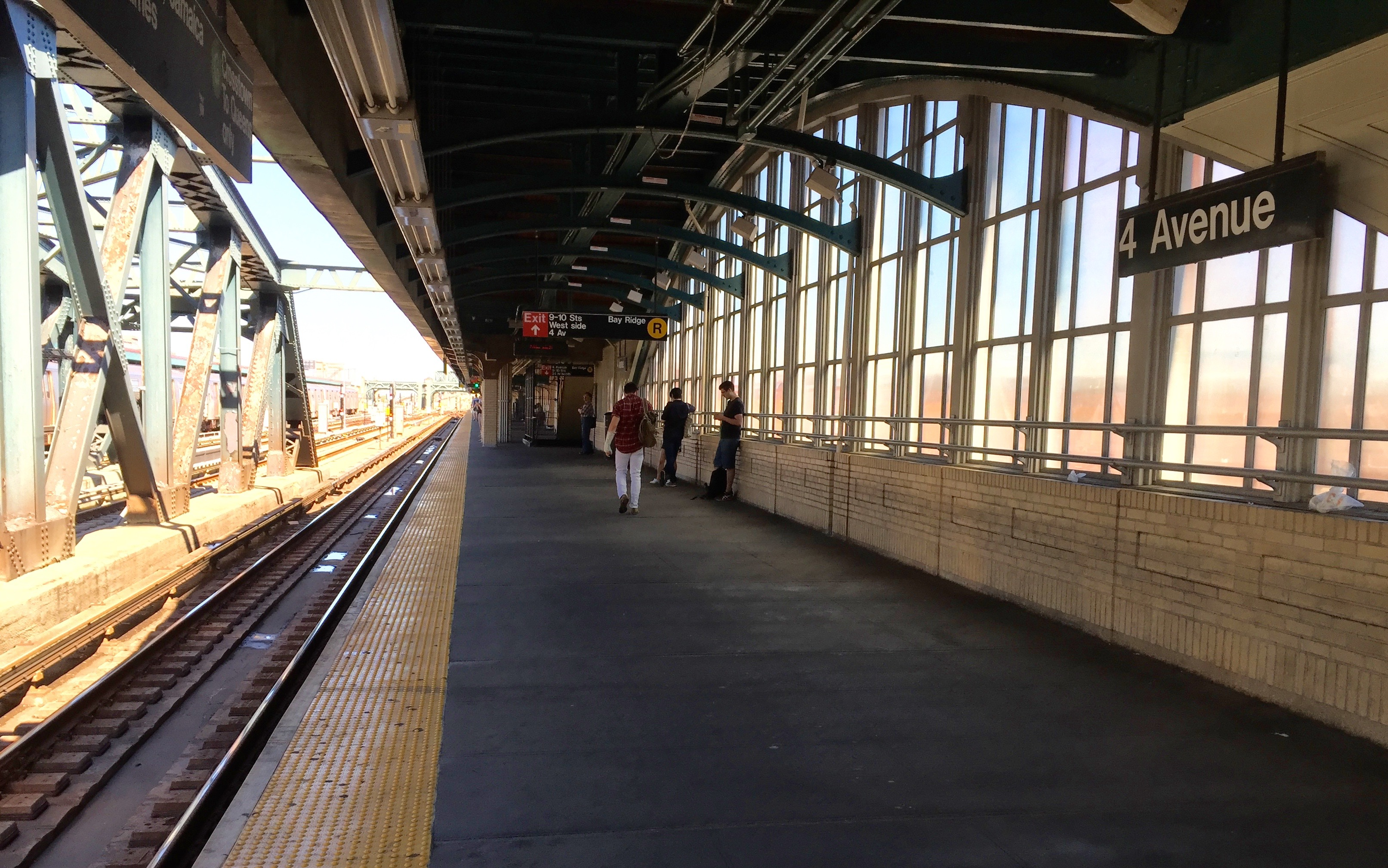 Manhattan/Queens bound platform at 4th Avenue on the F/G